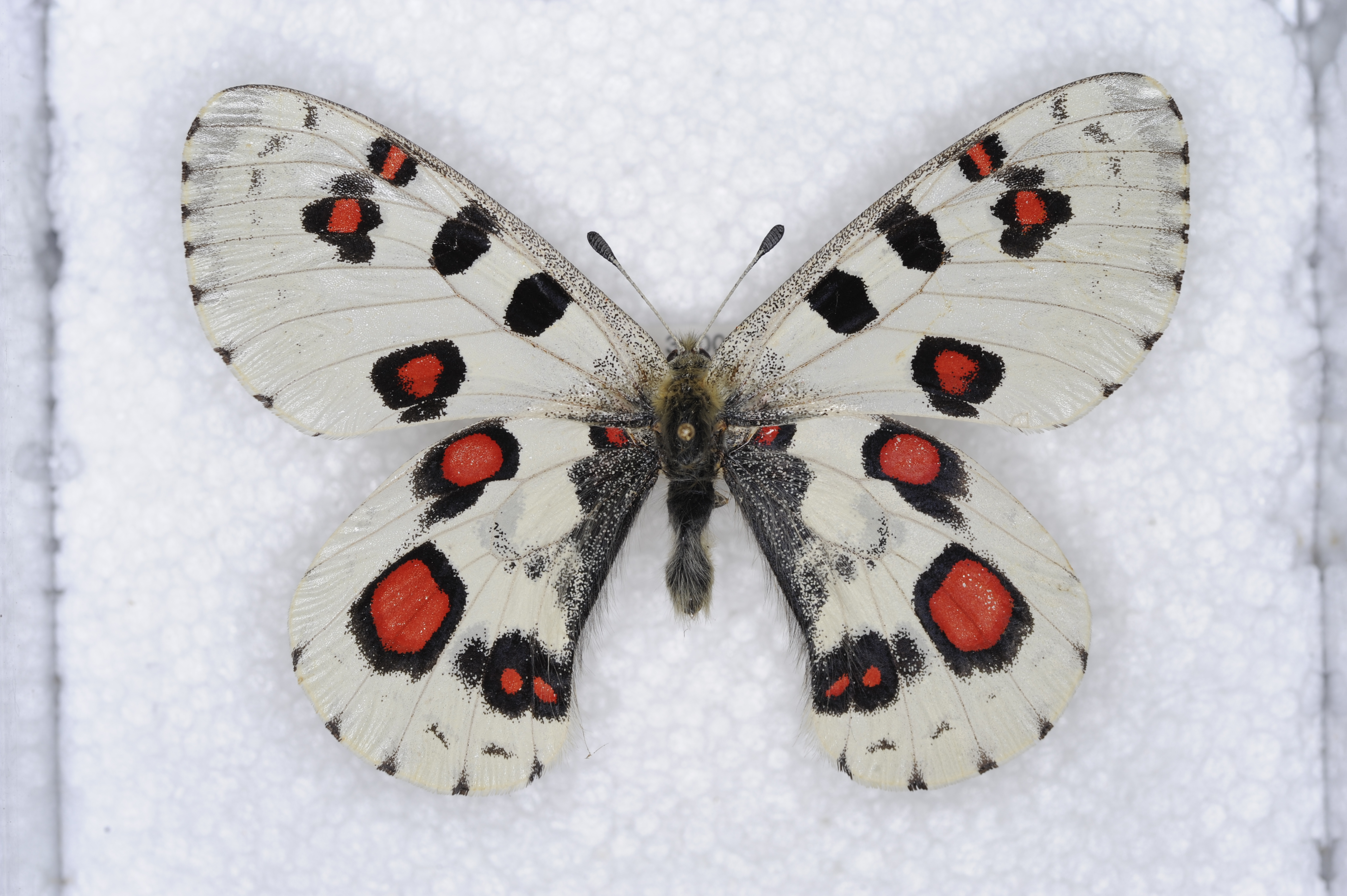 Butterfly Parnassius nomion spp. gabrieli